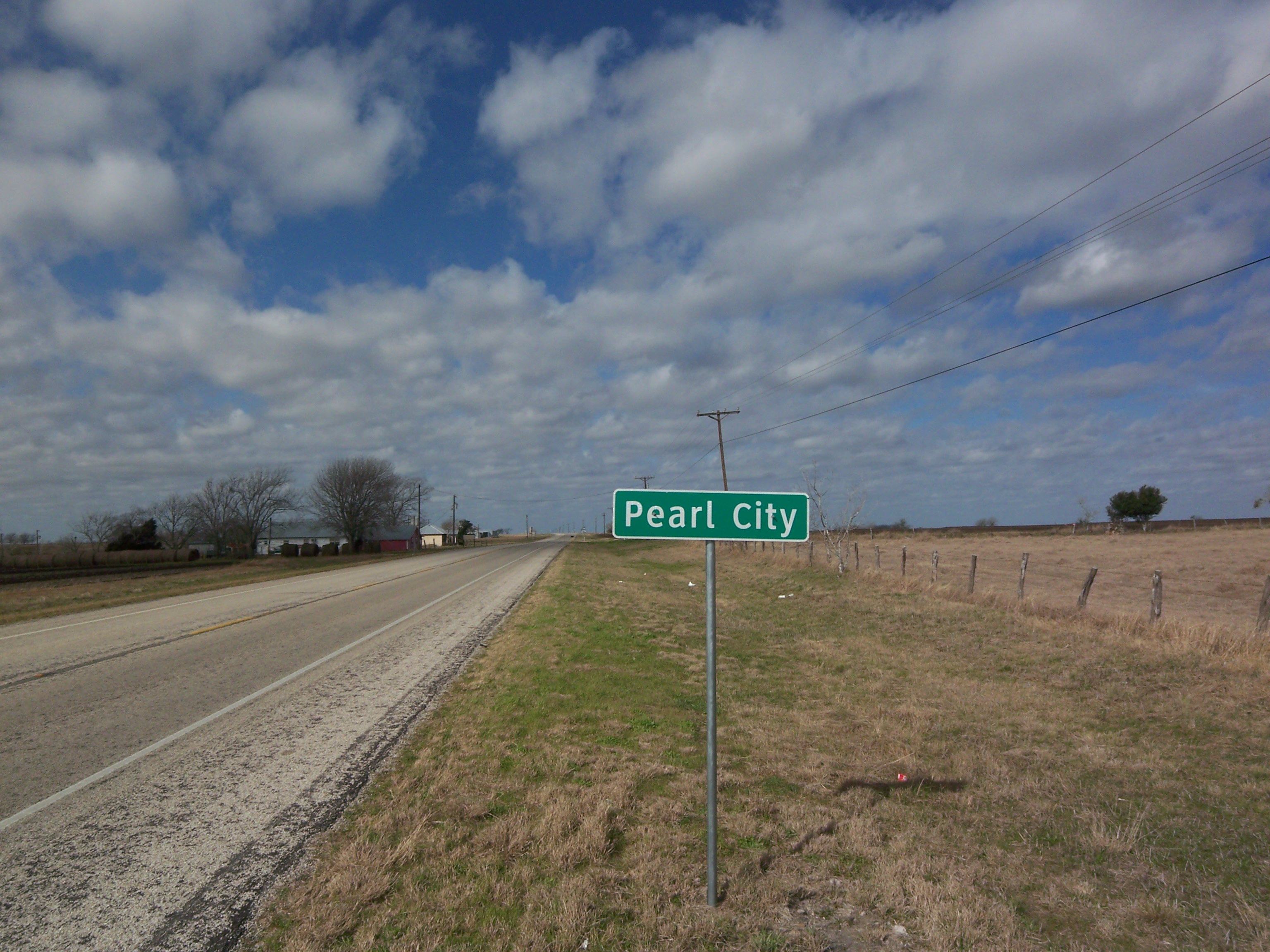 Town marker for Pearl City, Texas. Pearl City was named after the Pearl Brewing Company's Pearl beer. Pearl City isn't a city at all, instead just a small community West of Yoakum.